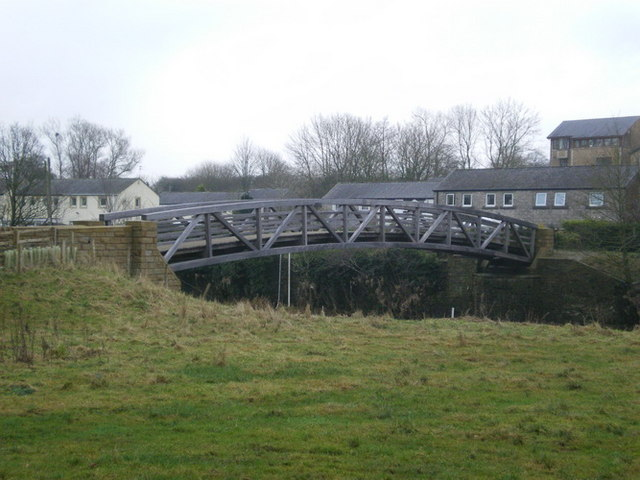 New footbridge over the River Ribble, Low Moor. This is the replacement for the old concrete bridge 455050. The old bridge was locally known as Spring Bridge as you could get a good bounce when jumping up and down, not with this one it is solid as a rock.